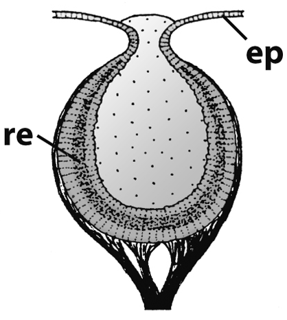 Pinhole eye of Haliotis sp. ep = epidermis; re = retina.